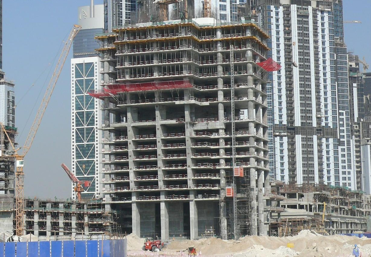 This is a photo showing the construction of Vision Tower, located in Business Bay in Dubai, United Arab Emirates, on 22 November 2007.